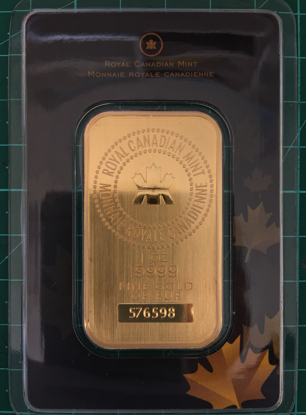 The obverse design of the Royal Canadian Mint 1 oz gold bar.